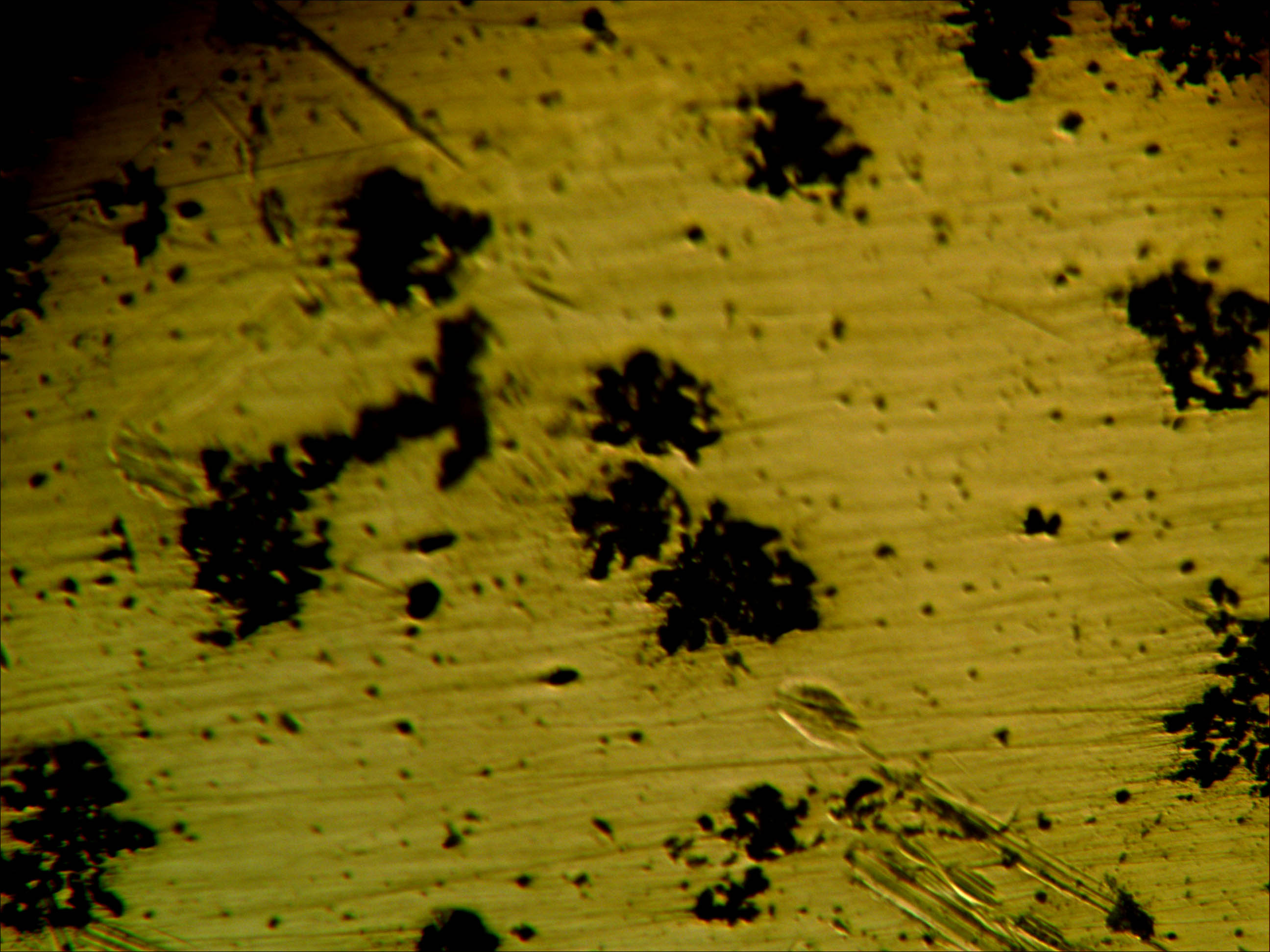 Microstructure of malleable cast iron